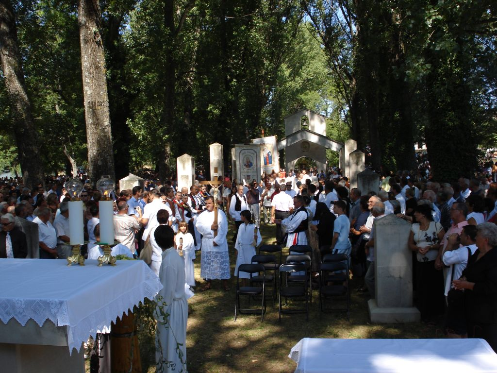 Proložac, celebration of the Assumption of Mary